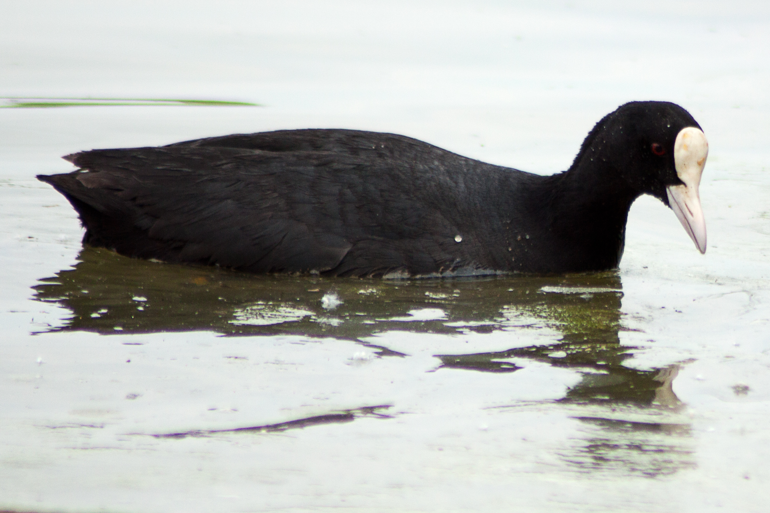 Oasi di Tivoli-Manzolino